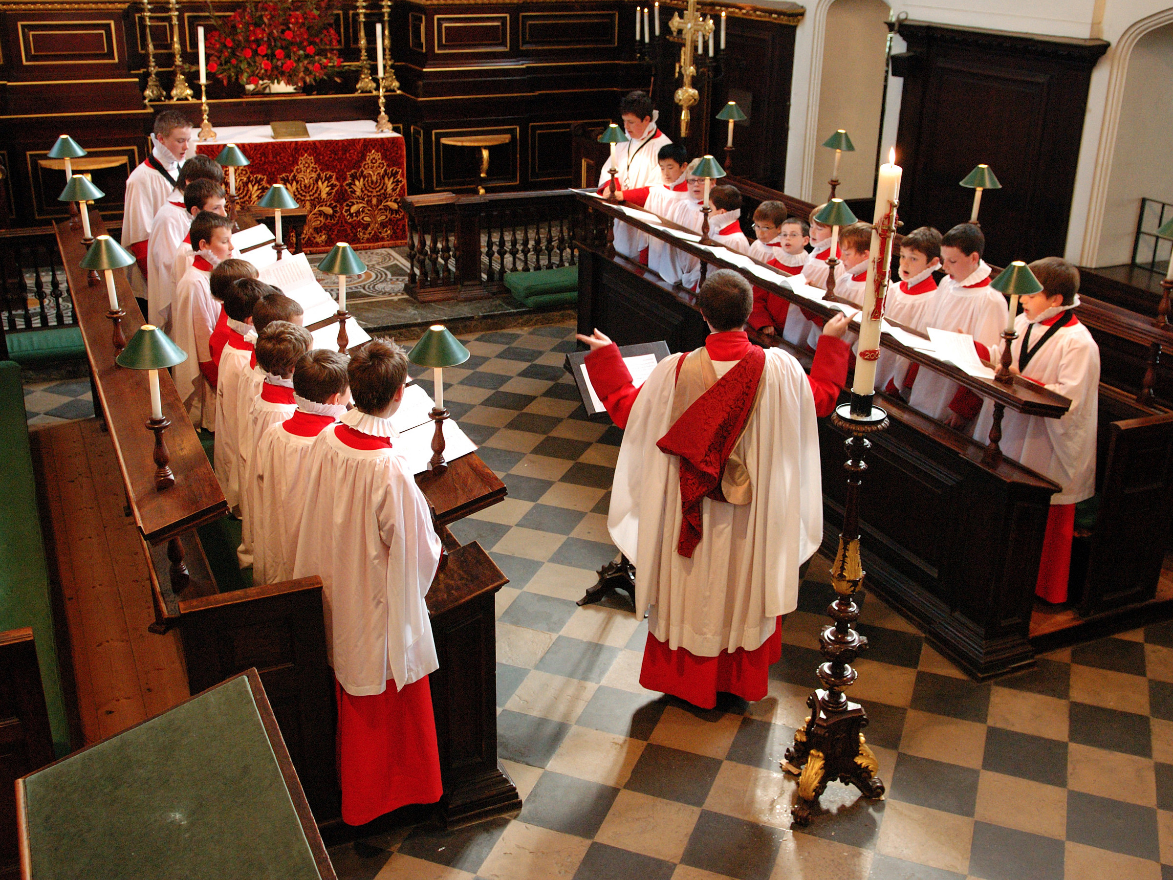 The Boys' Choir of All Saints Northampton